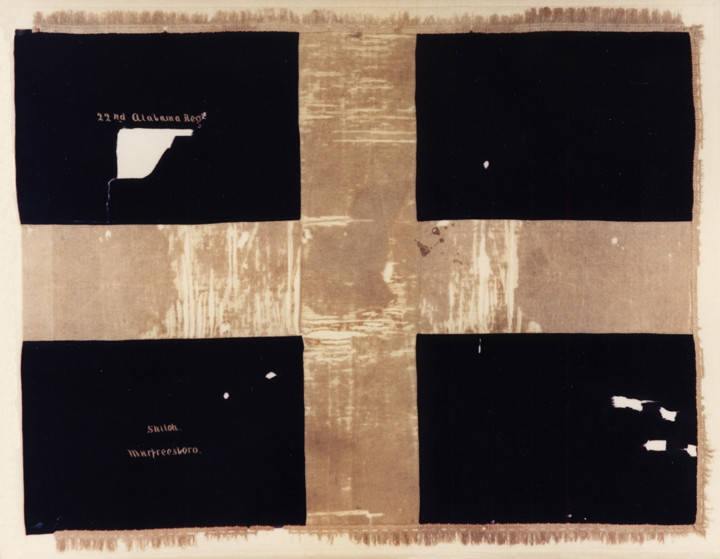 22nd Alabama Infantry flag (Polk's and Bragg's Corps pattern), Alabama Department of Archives and History